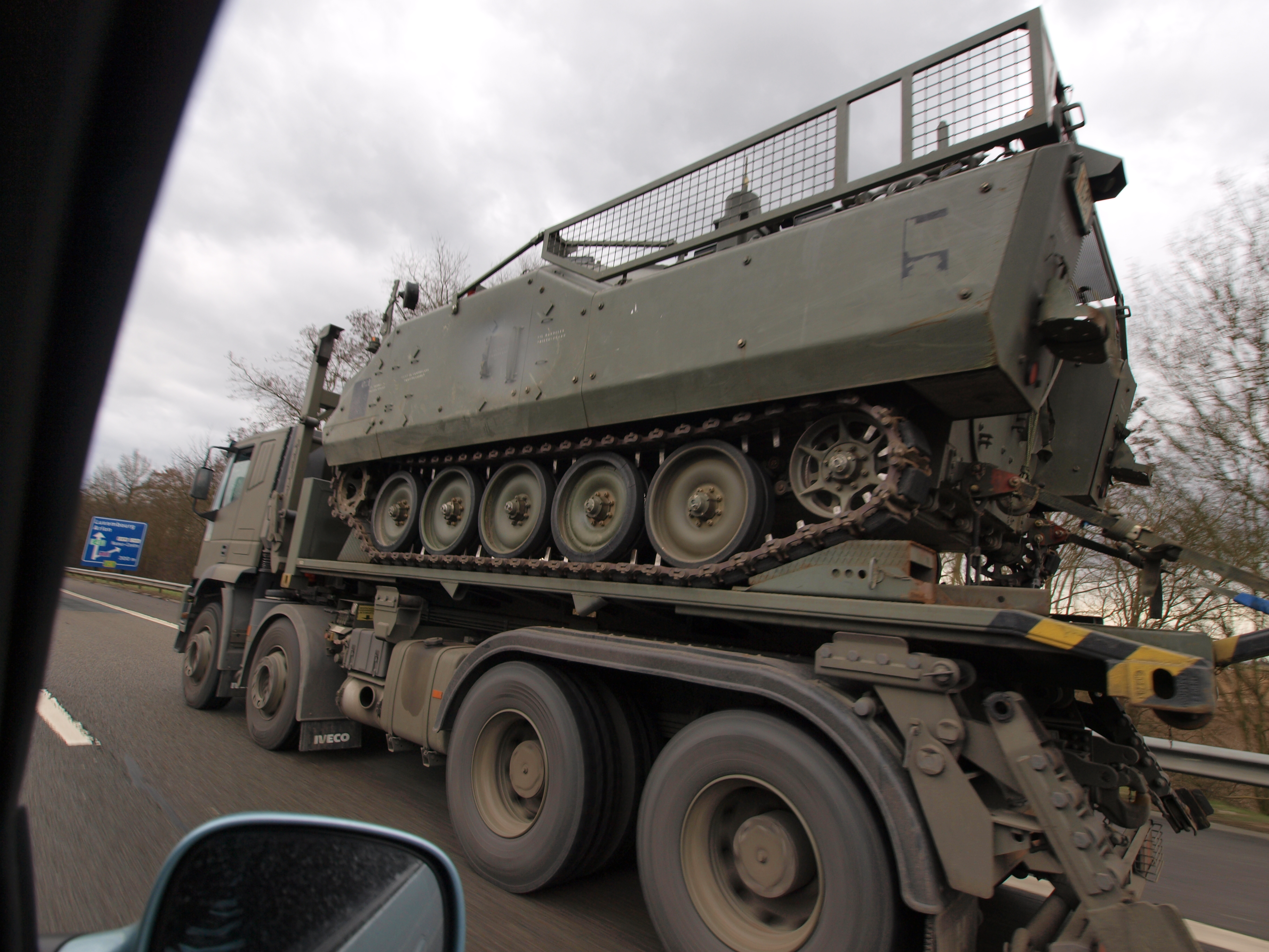 Iveco EuroTrakker Cursor 90235 with AIFV-B 74241